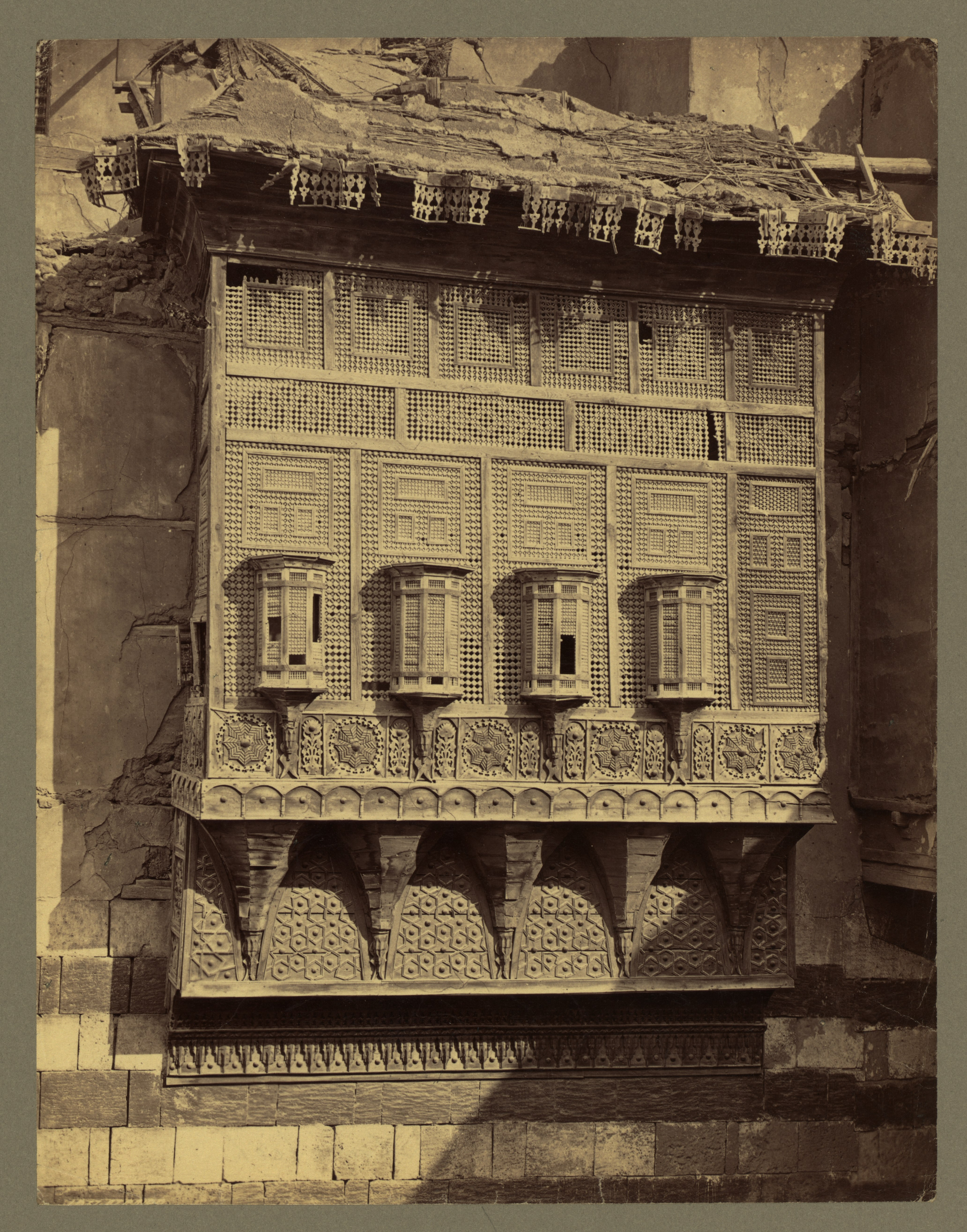 Title: Egypt - Cairo - old house and masharabieh Abstract/medium: 1 photographic print: albumen.